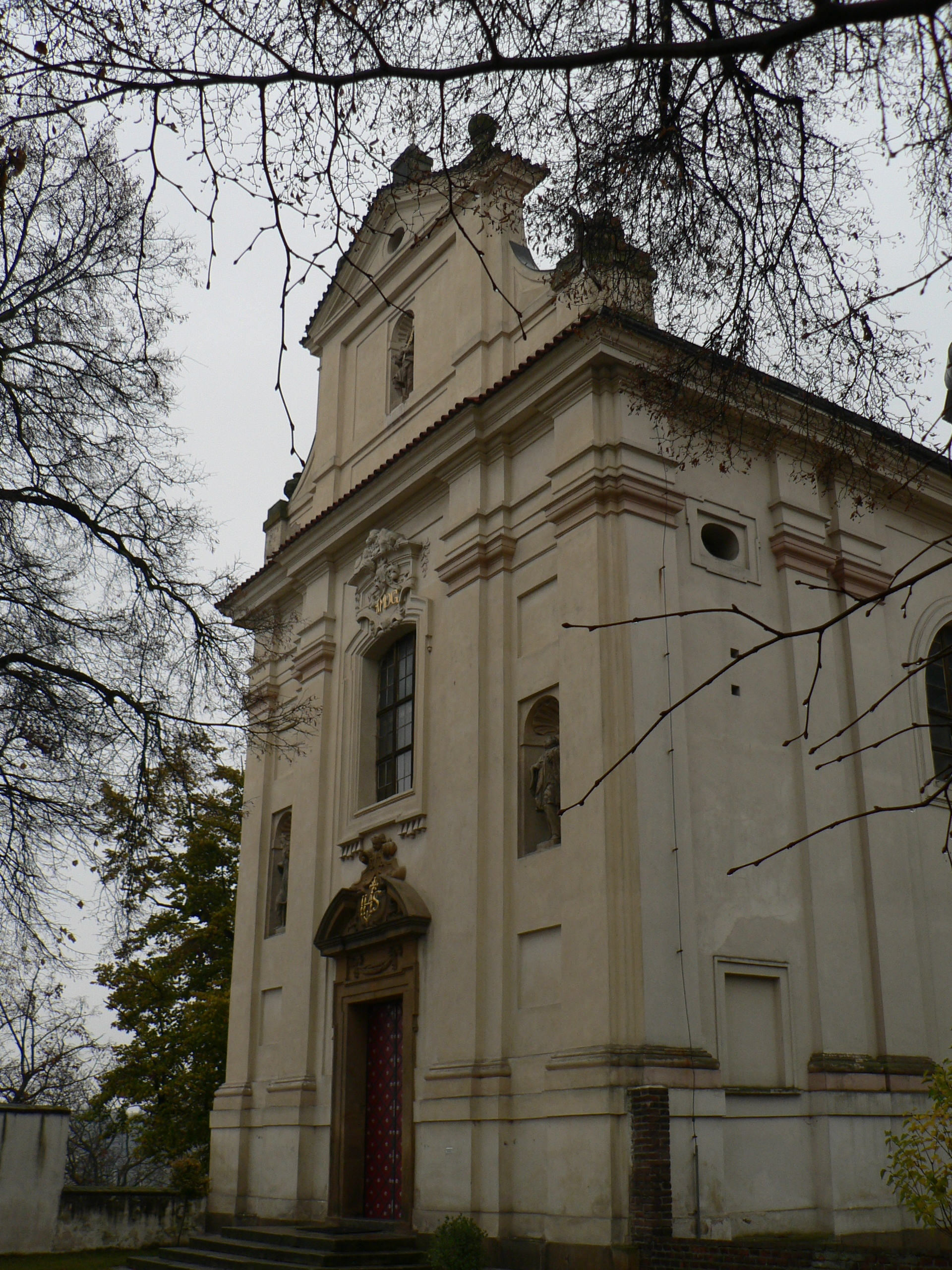 St Vitus church in Tuchoměřice, Prague-West District, Czech Republic.